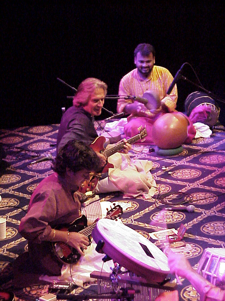 Remember Shakti in Munich/Germany (2001): Shrinivas, McLaughlin, Selvaganesh